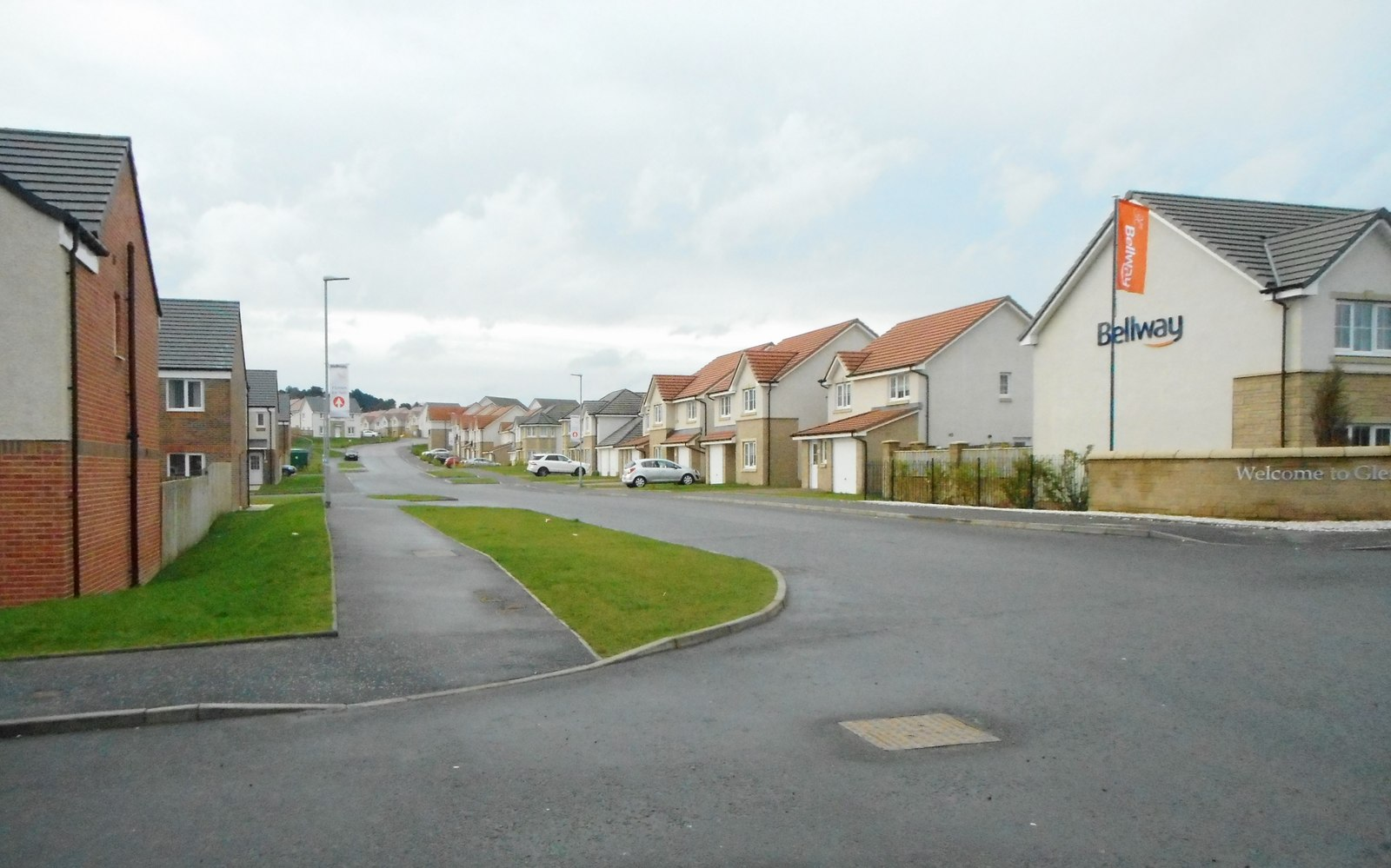 New houses, Darnley Mains